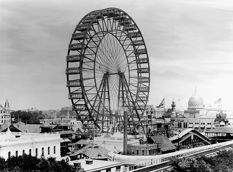 The original Ferris Wheel at the 1893 World Columbian Exposition in Chicago.